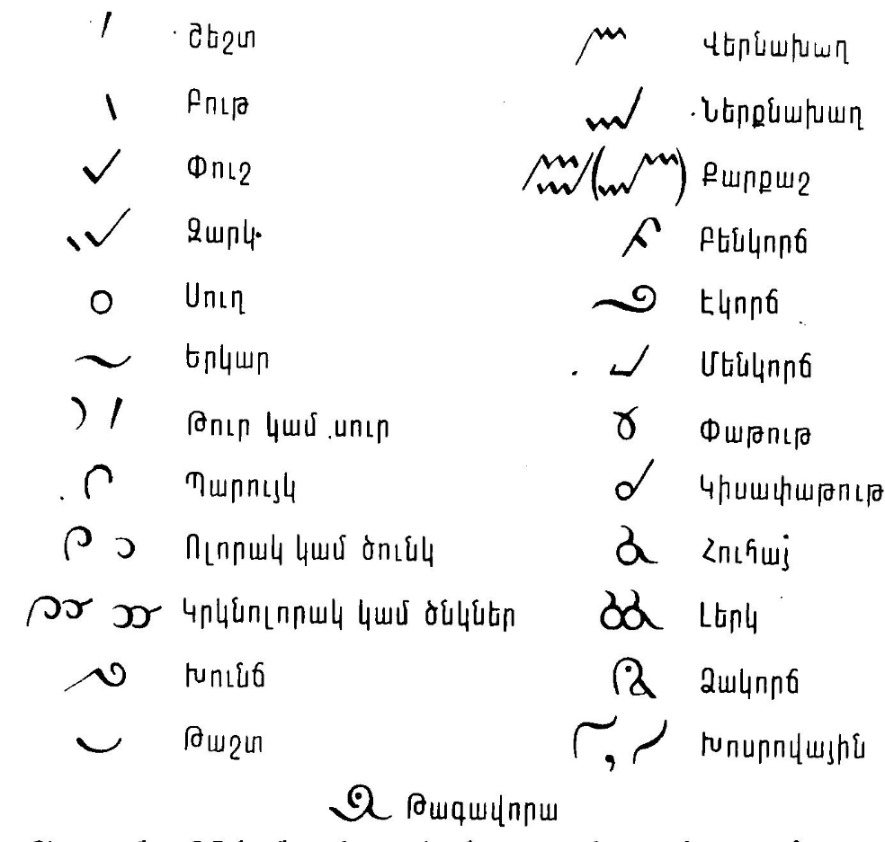 This file got from "Soviet Armenian Encyclopedia" with "Creative Commons BY-SA 3.0" License.